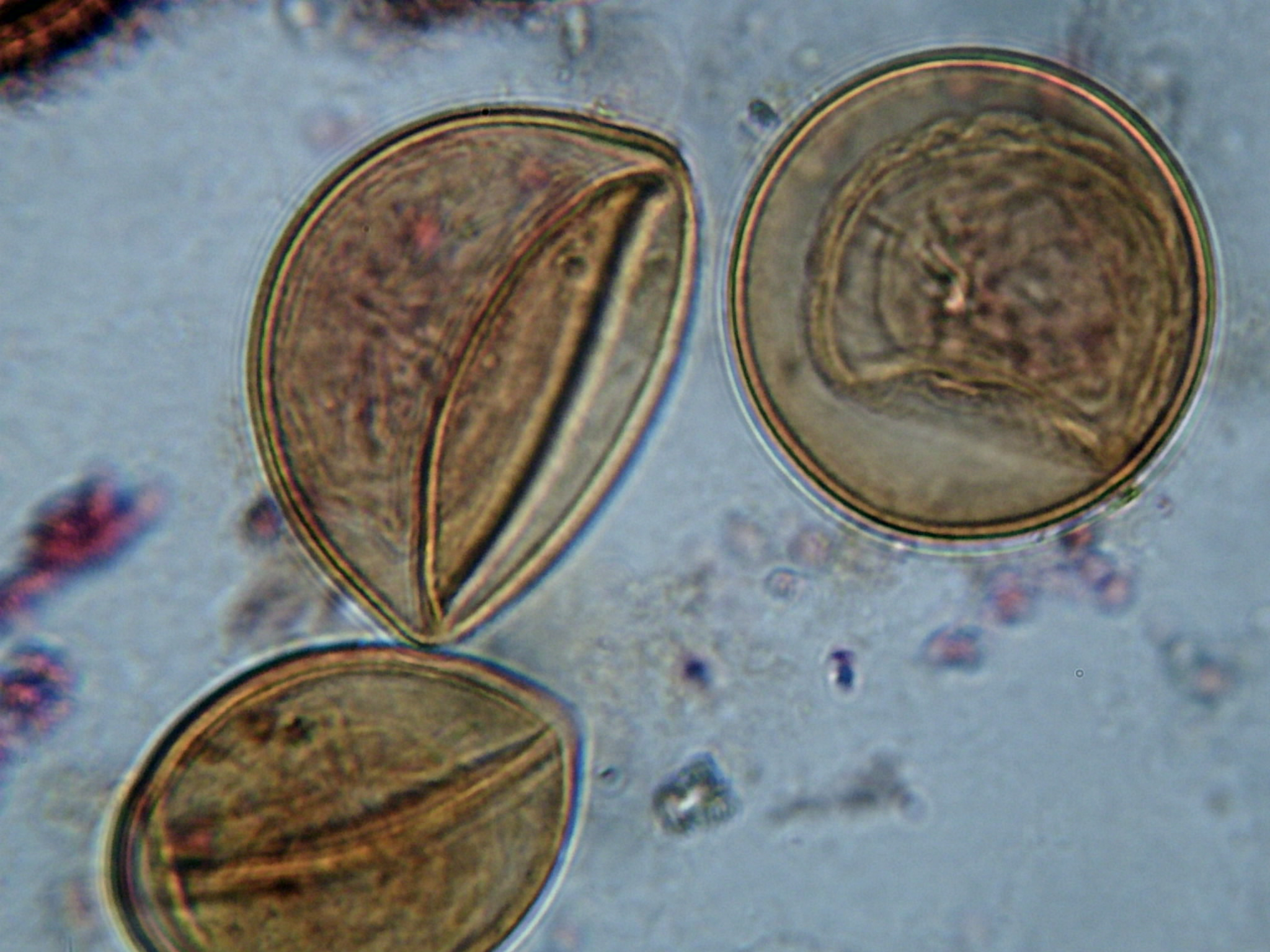 Tapeworm (Taenia) eggs